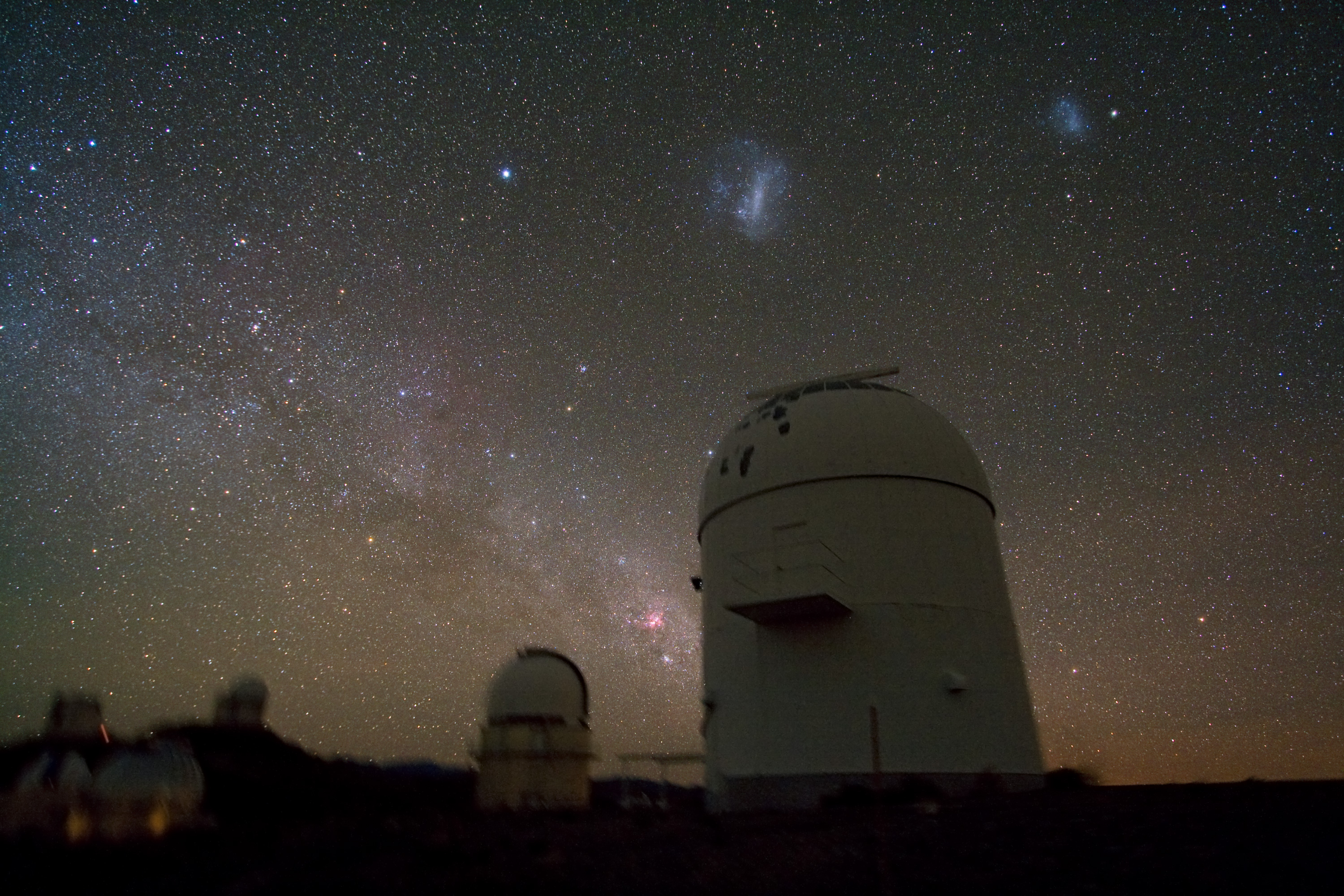 This view of ESO’s La Silla Observatory reveals the splendour of the night sky and shows several of the domed telescopes located at the site. The glowing band of the plane of the Milky Way Galaxy slants through the sky from the upper left to the lower middle, where the now closed GPO (Grand Prism Objectif) dome, which also hosted the Marly 1-metre telescope, looms in the foreground, together with the Danish 1.54-metre telescope. The ghostly, bluish objects above the GPO’s dome are two galaxies belonging to the Milky Way’s close neighbourhood and known as the Large and Small Magellanic Clouds. La Silla’s collection of domed telescopes also includes the ESO 3.6-metre telescope, home to HARPS (High Accuracy Radial velocity Planet Searcher), the world’s foremost exoplanet hunter, and the 3.58-metre New Technology Telescope, which broke new ground for telescope engineering and design, and was the first in the world to have a computer-controlled main mirror (active optics), a technology developed at ESO and now applied to most of the world’s current large telescopes. La Silla is one of the most scientifically productive ground-based facilities in the world after ESO’s Very Large Telescope (VLT) observatory, both of which are located in northern Chile’s Atacama Desert.